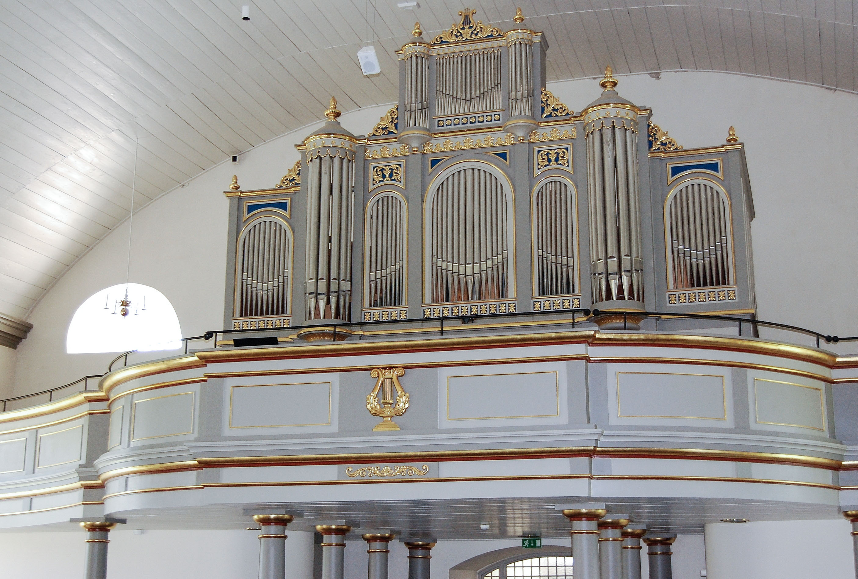 Almundsryds Church.Organ.